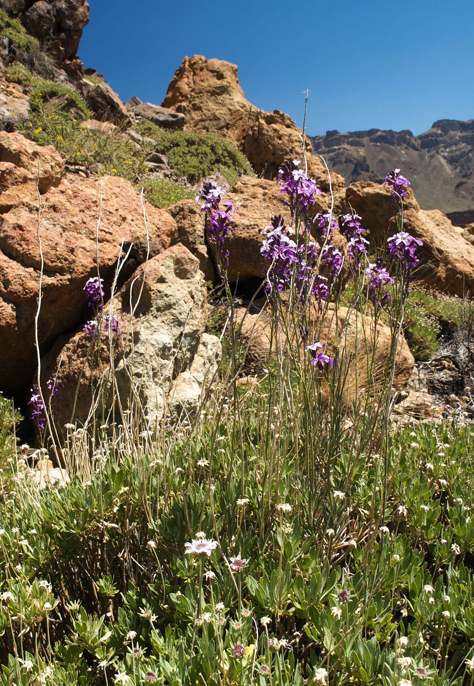 Erysimum bicolor, Tenerife, Spain